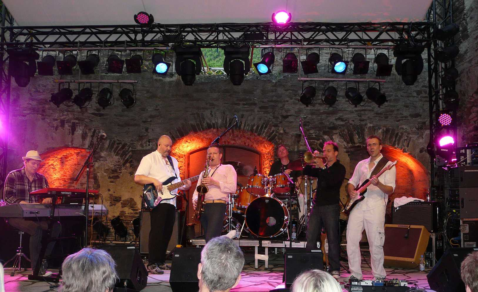 Mezzoforte playing at the Monastir Ruin Marienthal near Bad Neuenahr (Germany) during the Jazz Festival "Wine and more in Bad Neuenahr" at the 4th of July 2010